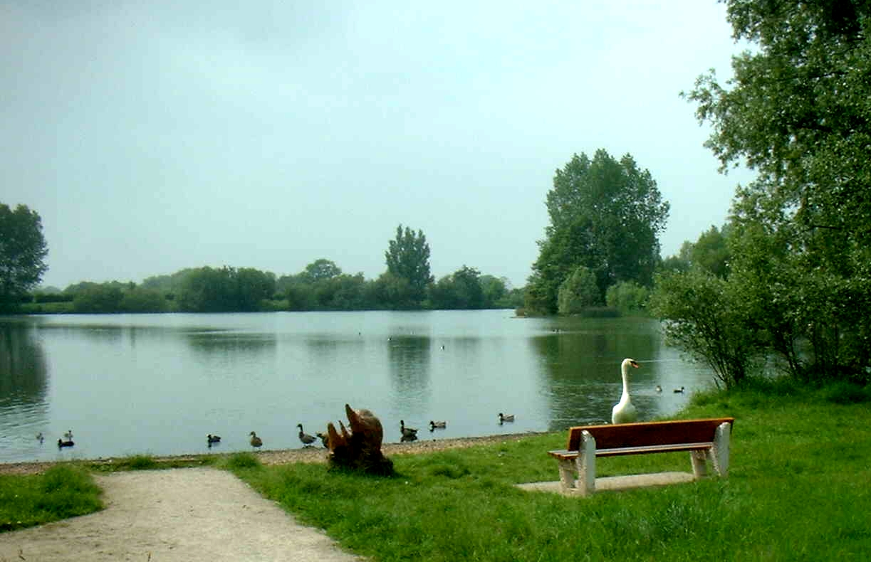 St Chads Church Wilne South Derbyshire